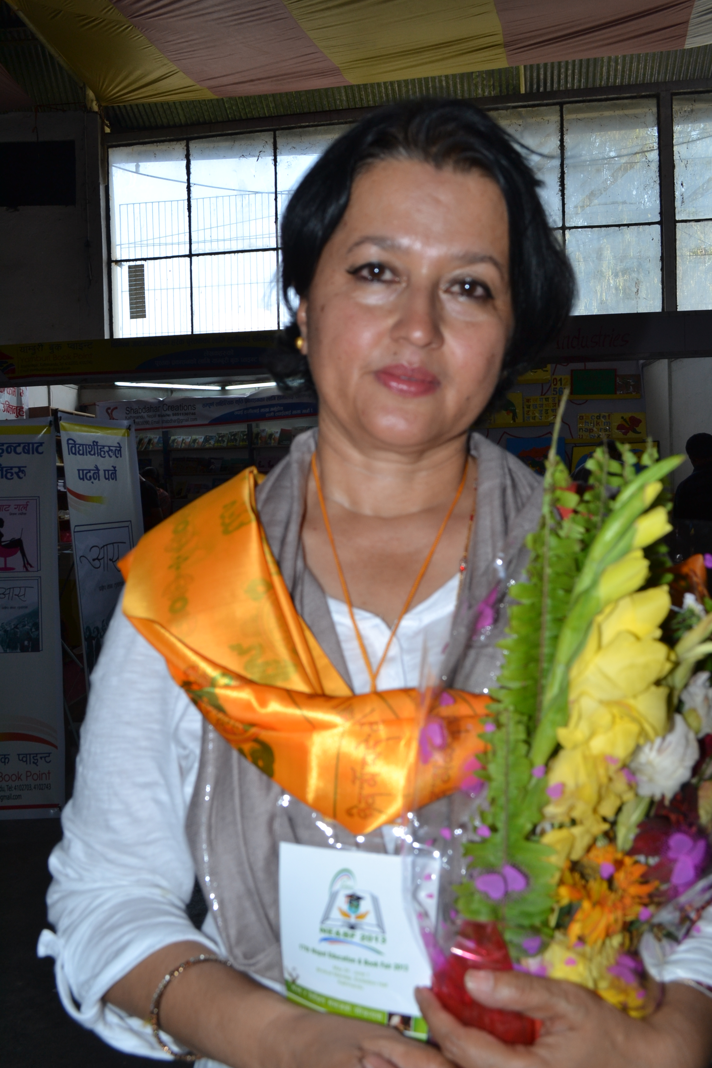 Sarada Sharma at Bhirkutimandap